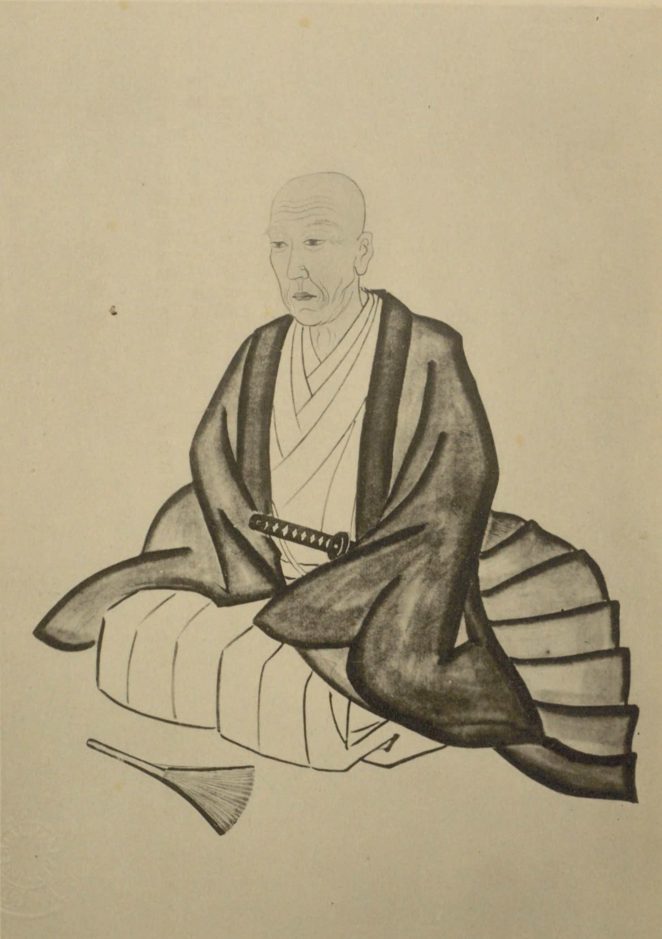 Portrait of Seyakuin Sohaku